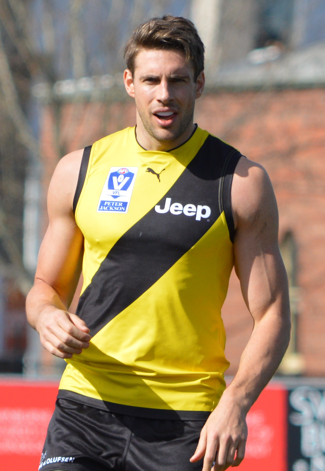 Shaun Hampson during a VFL match in August 2017